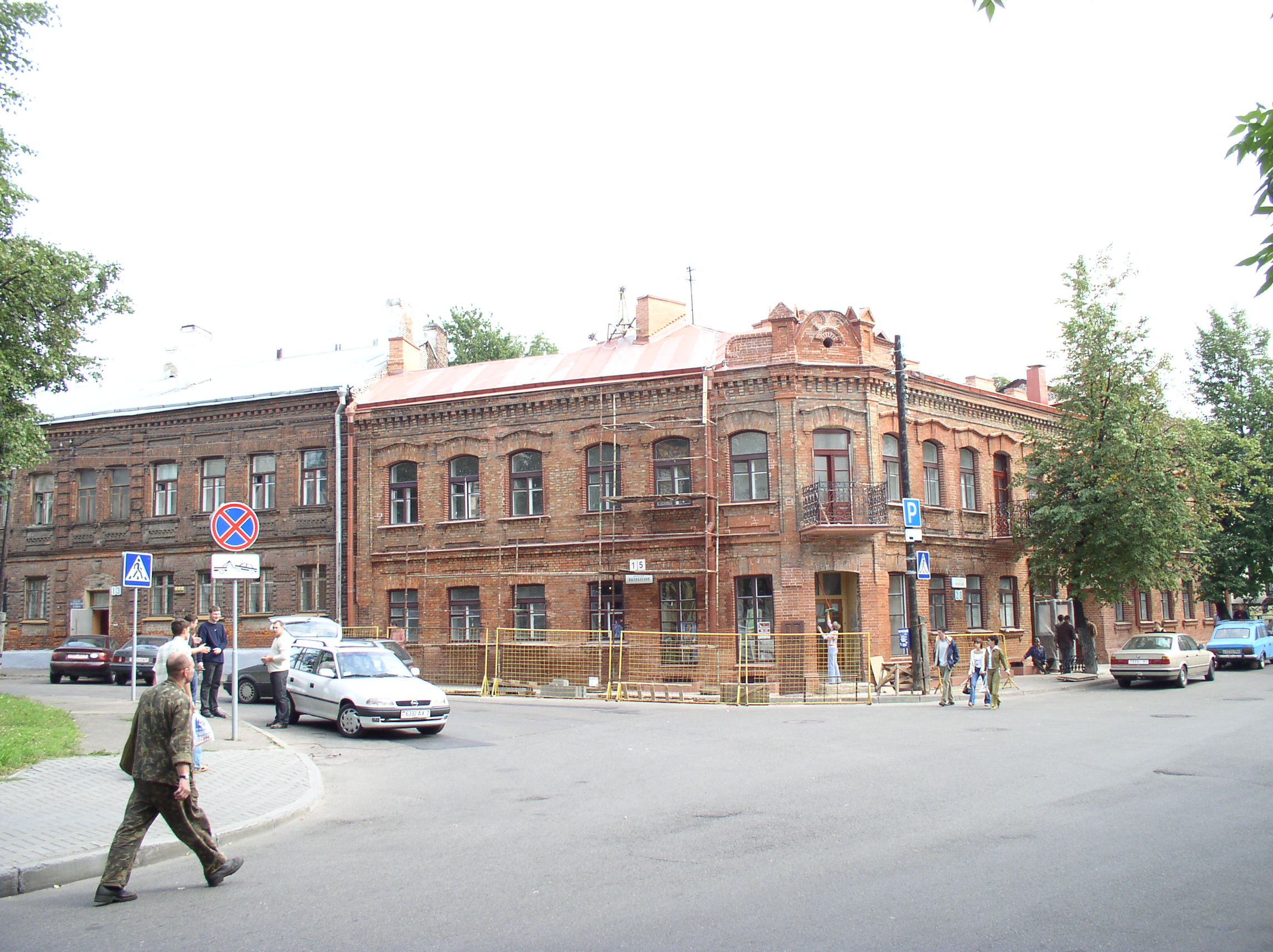 Liberation street. Minsk, Belarus.